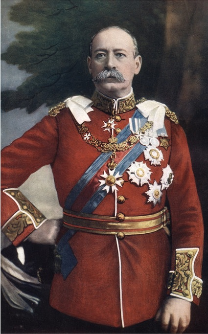 Francis Wallace Grenfell